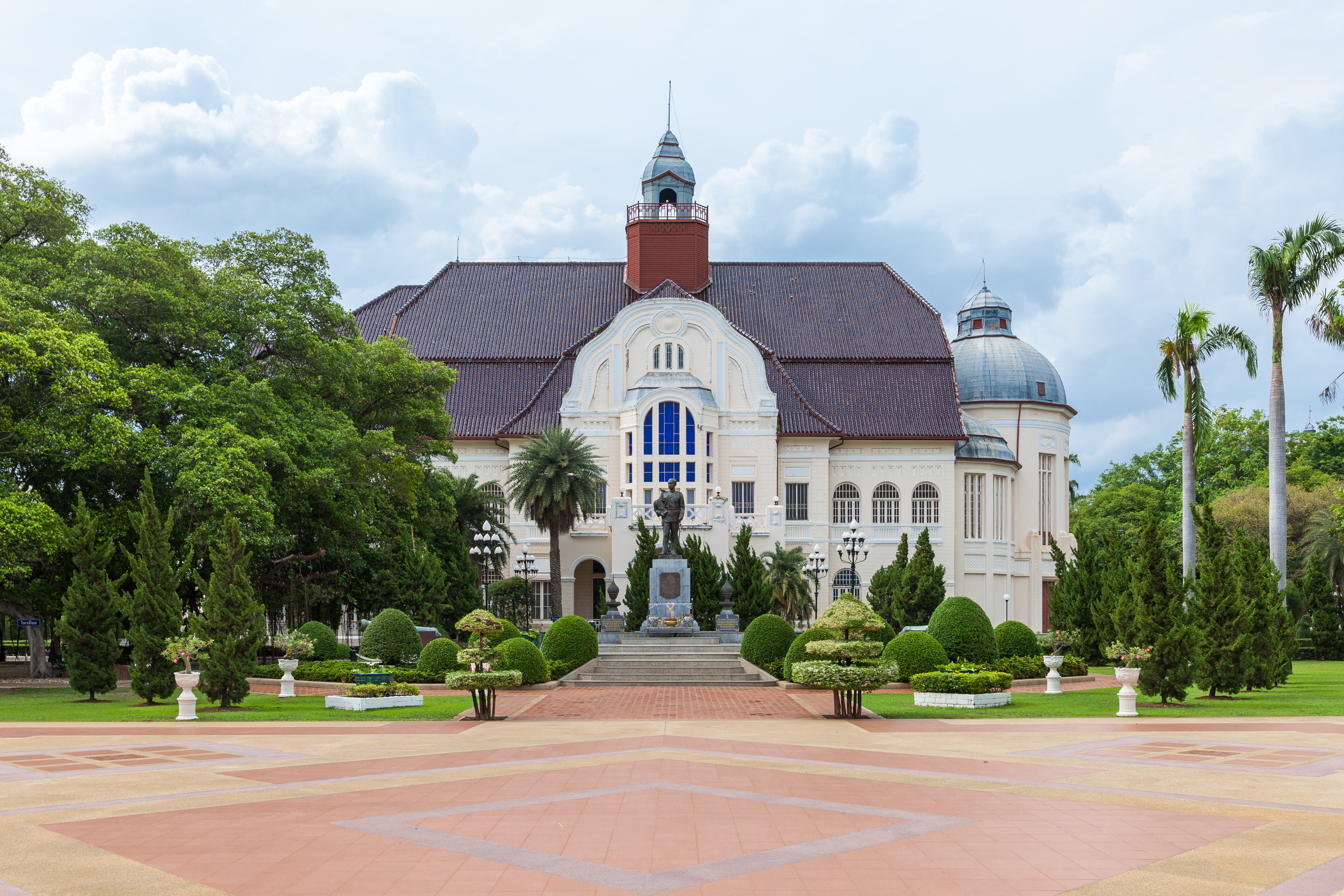 Tamnak Son Phet Prasat (also: "Phra Ram Ratchaniwet" or: "Wang Ban Puen"), Mueang Phetchaburi district, Phetchaburi Province, Thailand.